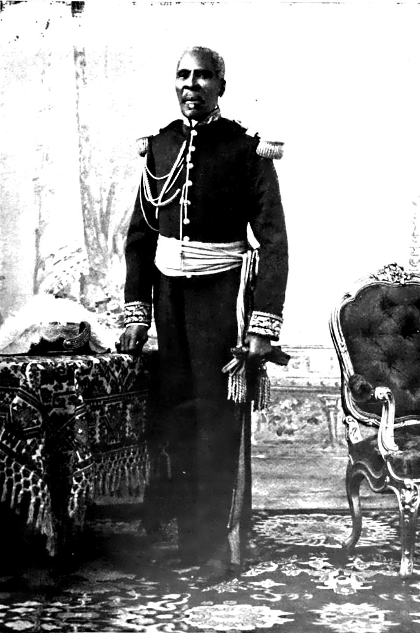 Portrait of Pierre Nord Alexis circa 1905. Caption:"Nord Alexis, the aged Black president of the Black republic."